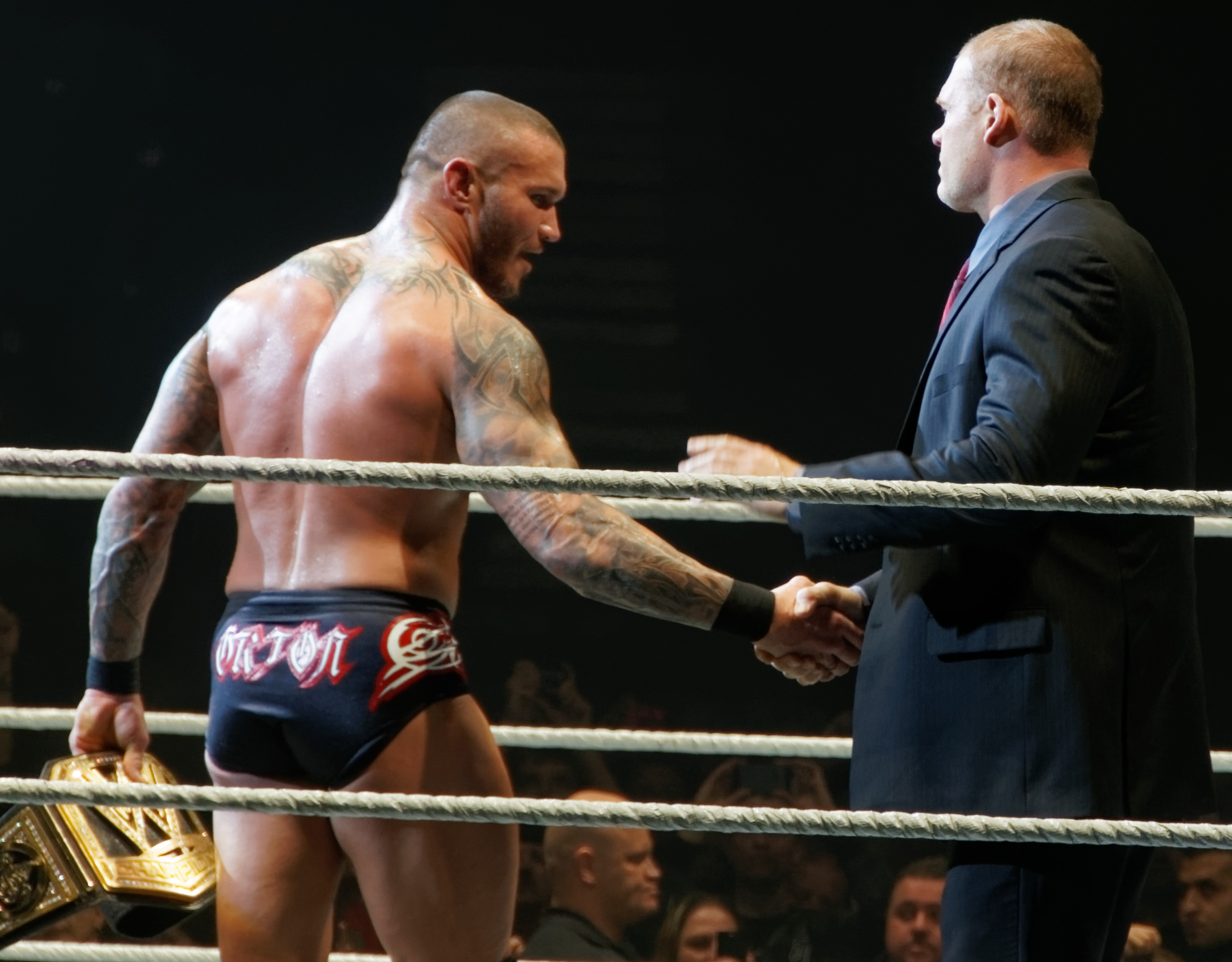 the authority